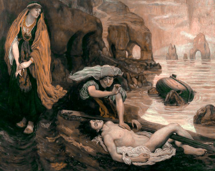 Ford Madox Brown, The Finding of Don Juan by Haidee, 1878, Musée d'Orsay, Paris